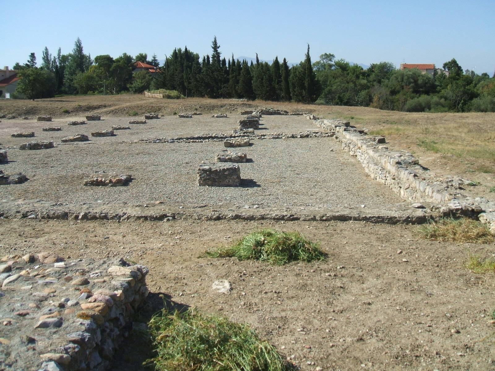 Ruscino archaeological site : the Roman forum, the basilica (Ist century AD)